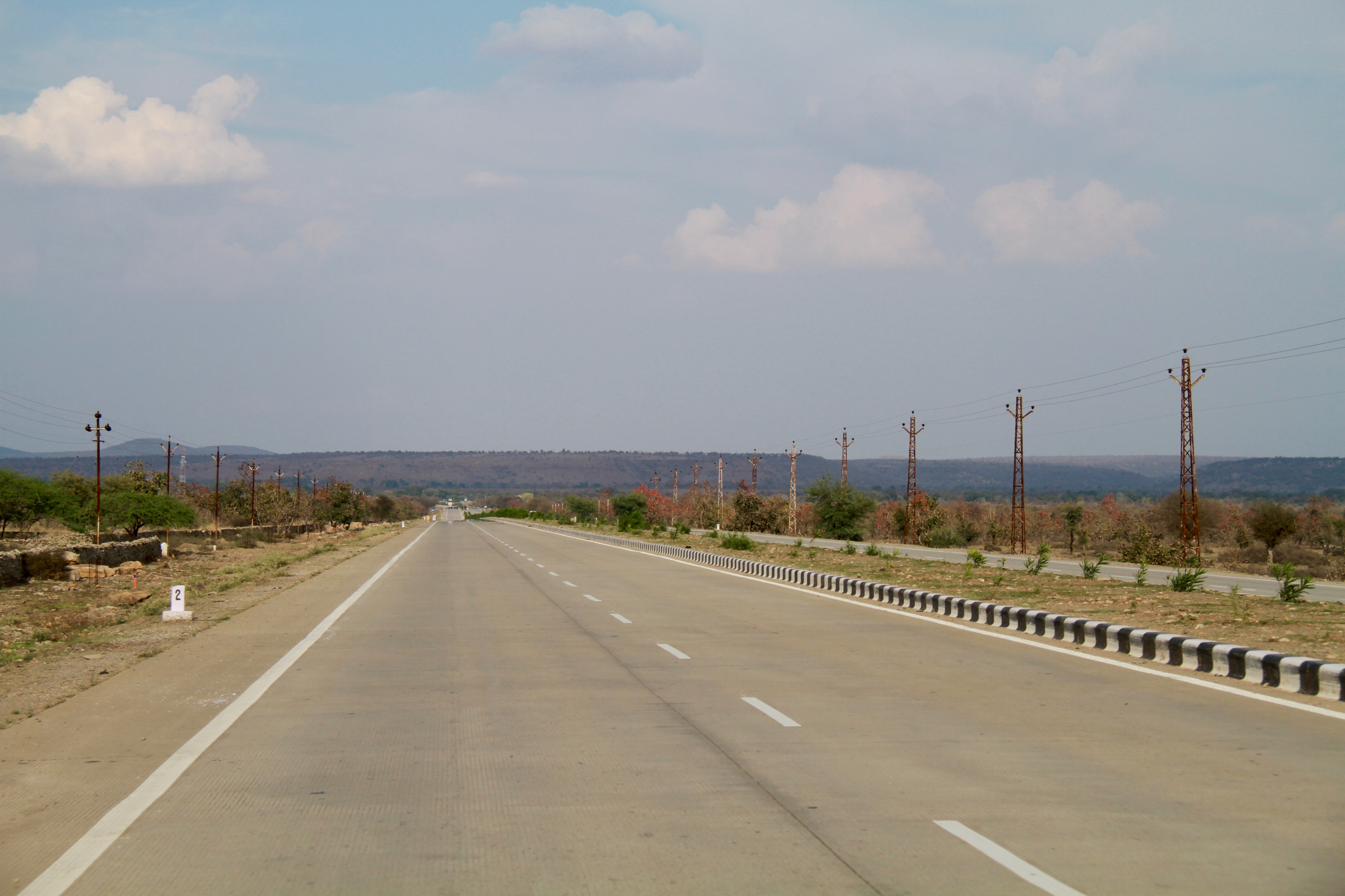 The Indian highway NH27 starts in Gujarat and crosses Rajasthan